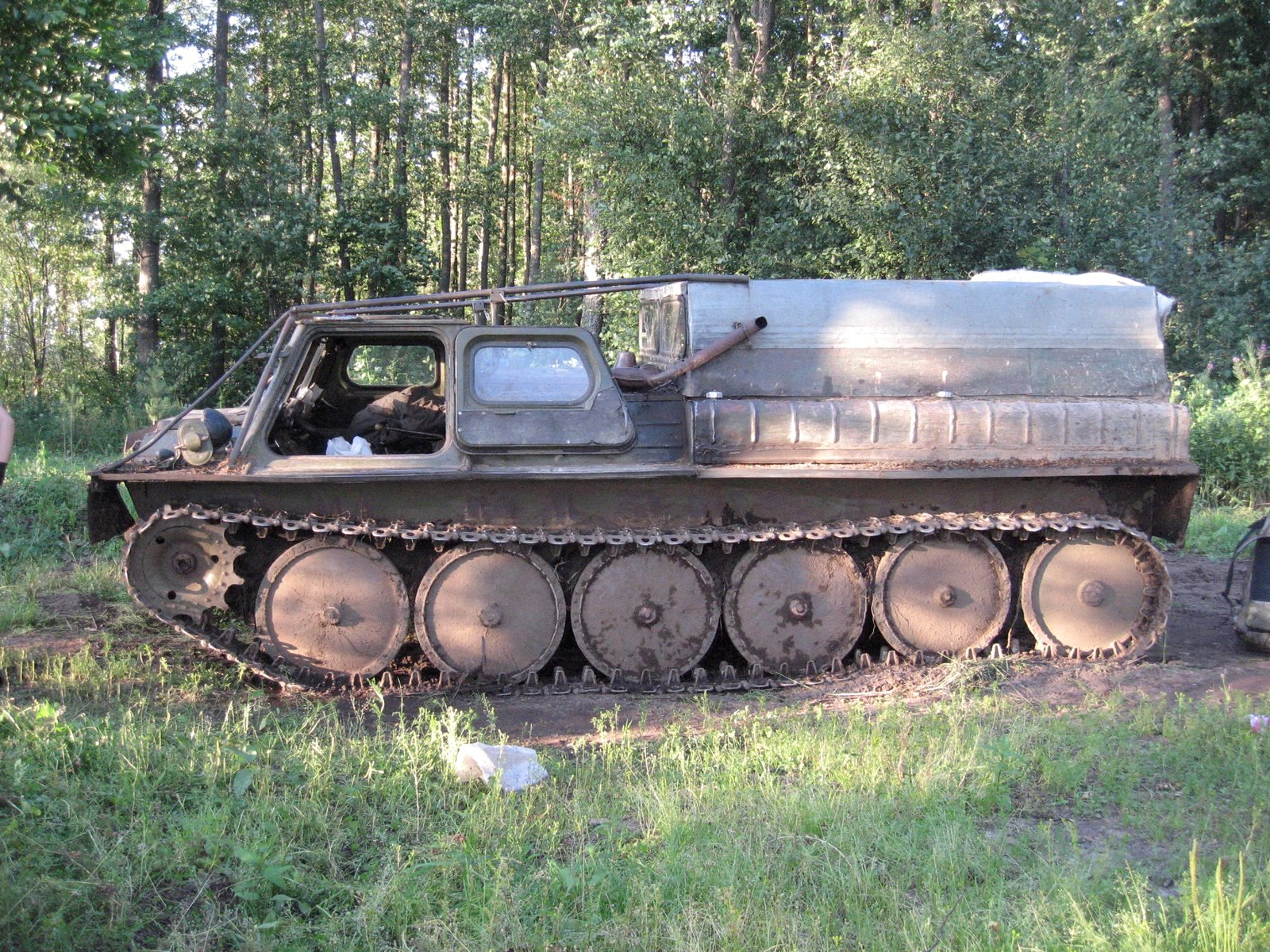 GAZ-71 tracked vehicle.